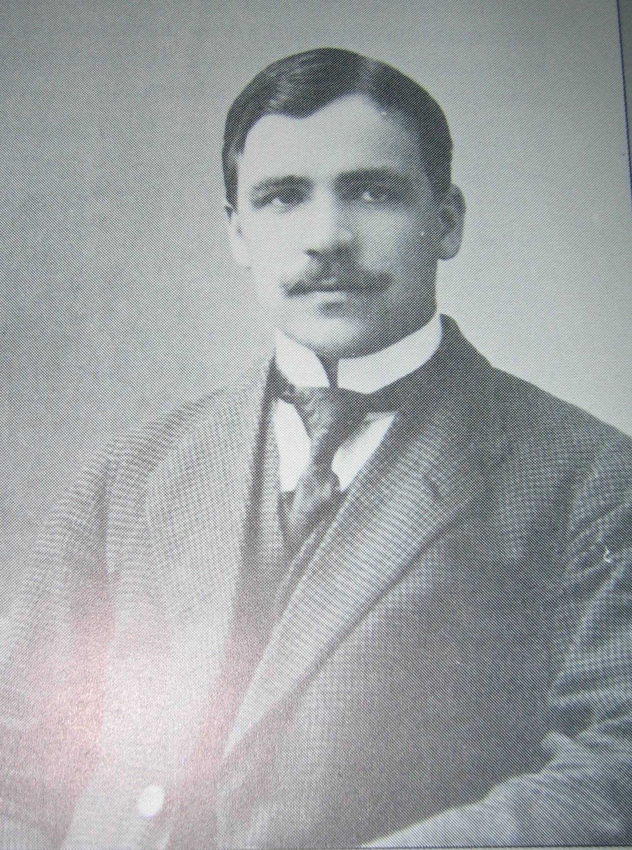 Finnish red guard leader Hannes Uksila